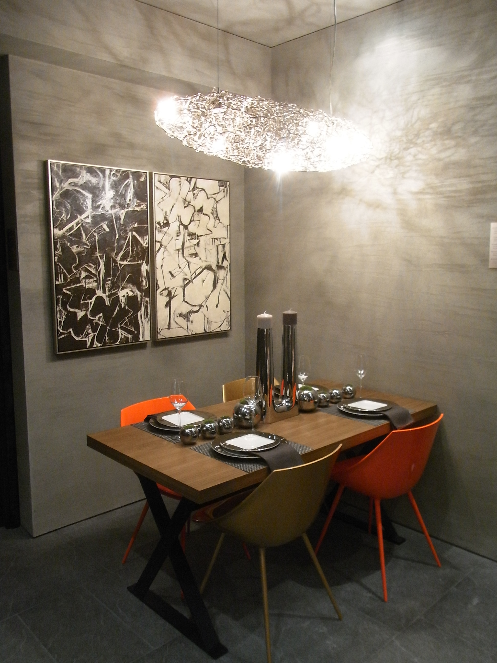 溱岸8號 The RiverPark showflat at 愉景新城 Discovery Park, Tsuen Wan, Hong Kong